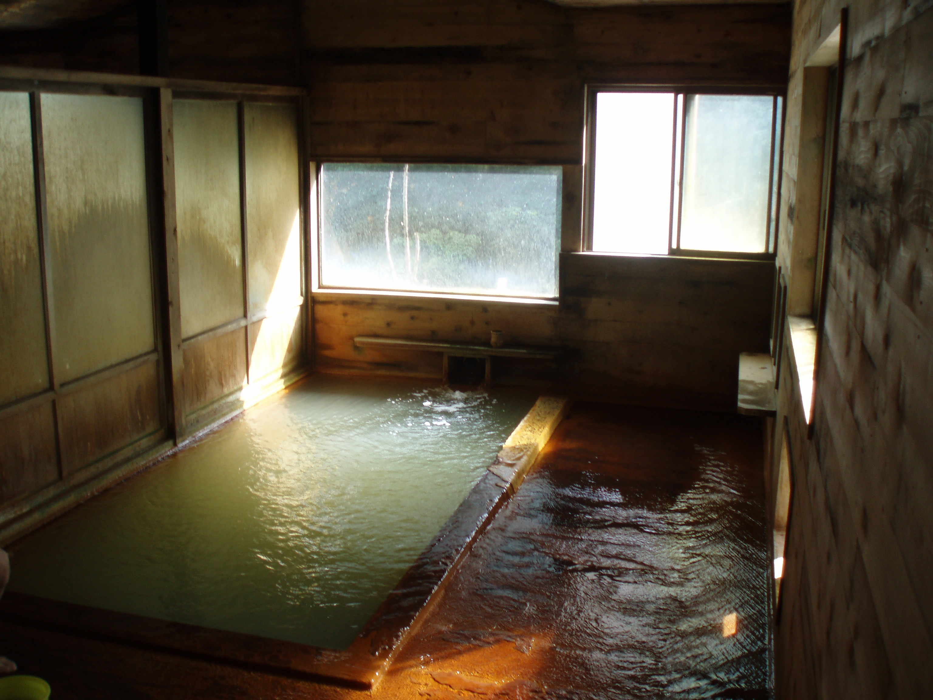 Furutobe Onsen in Hirakawa, Aomori.